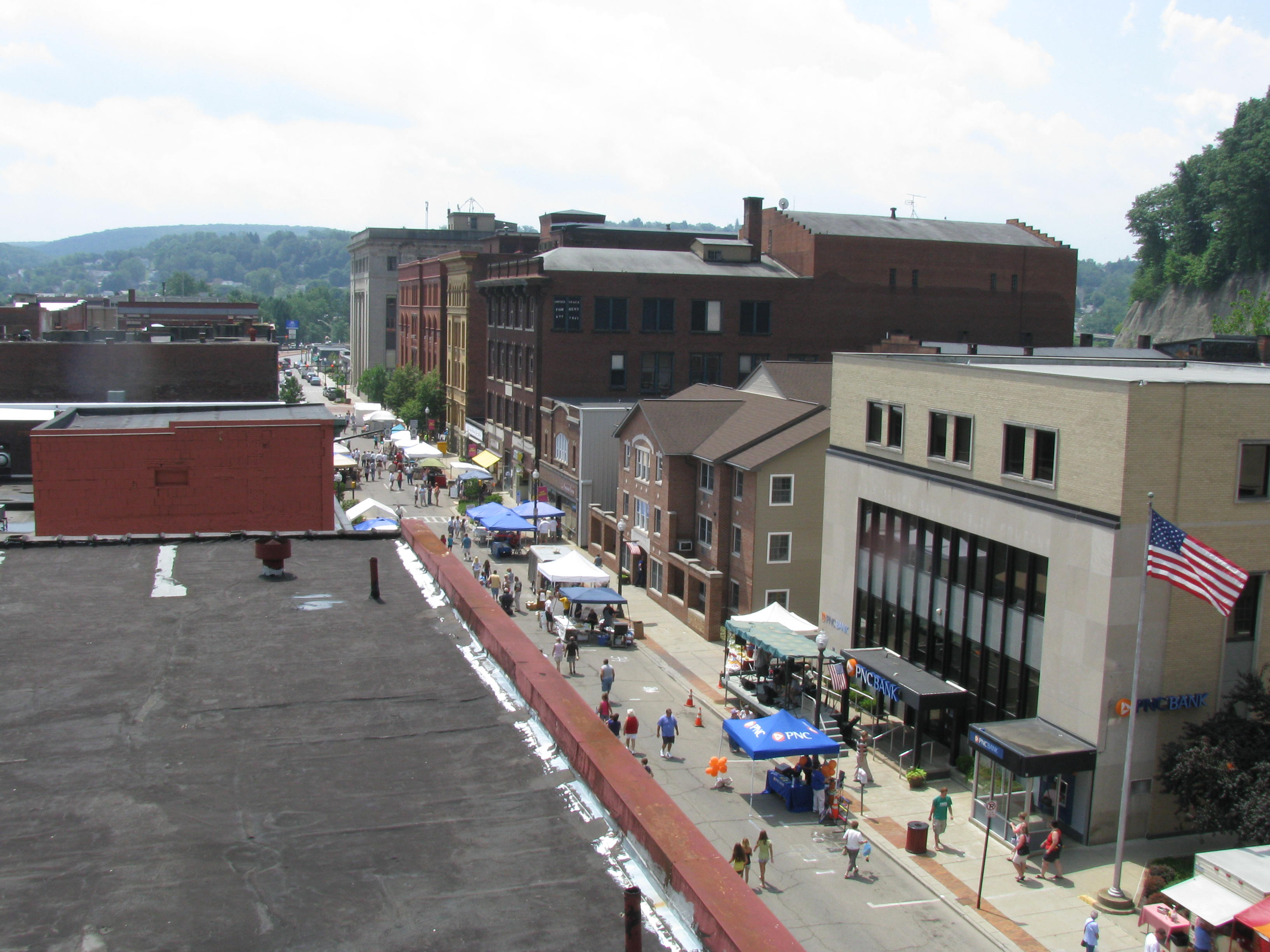 Overhead view of buildings in Pennsylvania's Oil City Downtown Commercial Historic District.